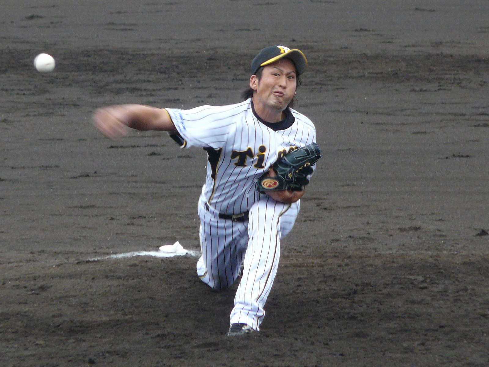 Takateru-Iyono